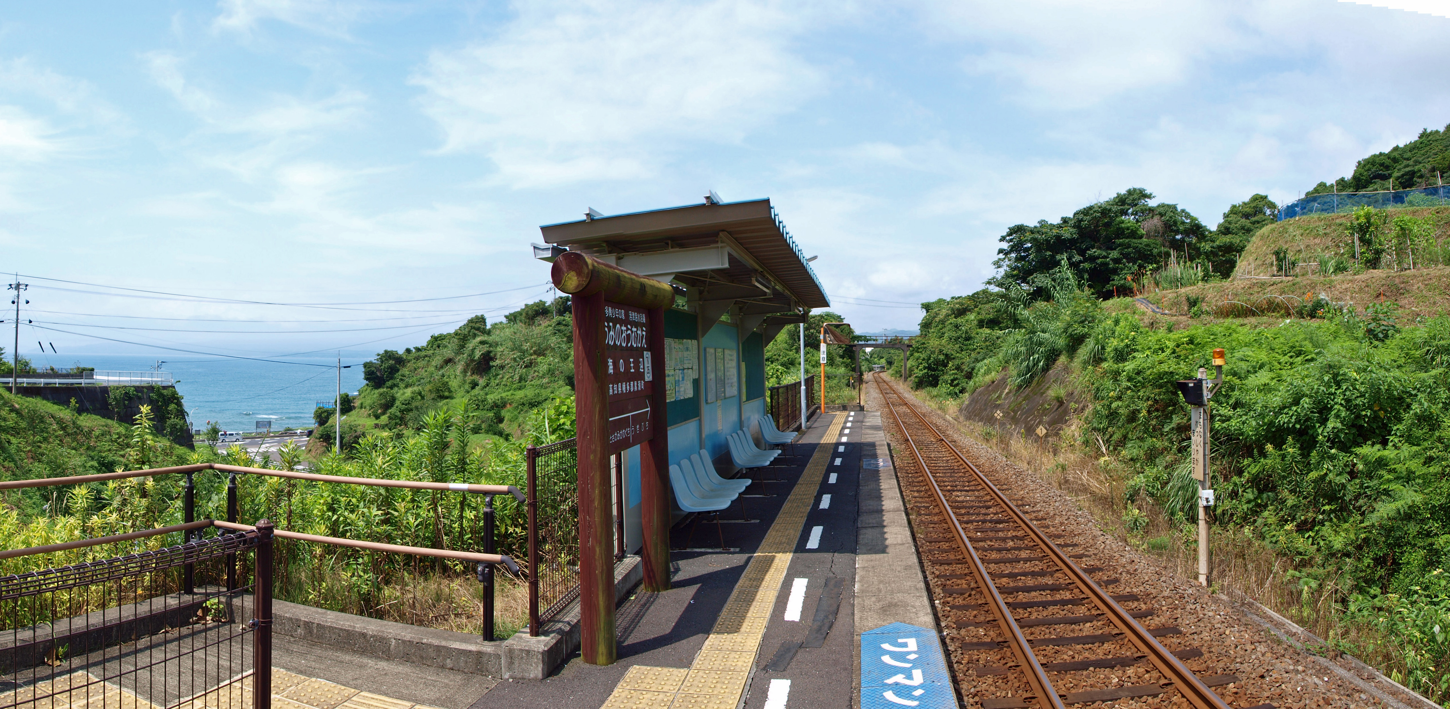 Uminoōmukae Station, Nakamura Line, Tosa Kuroshio Railway, Japan